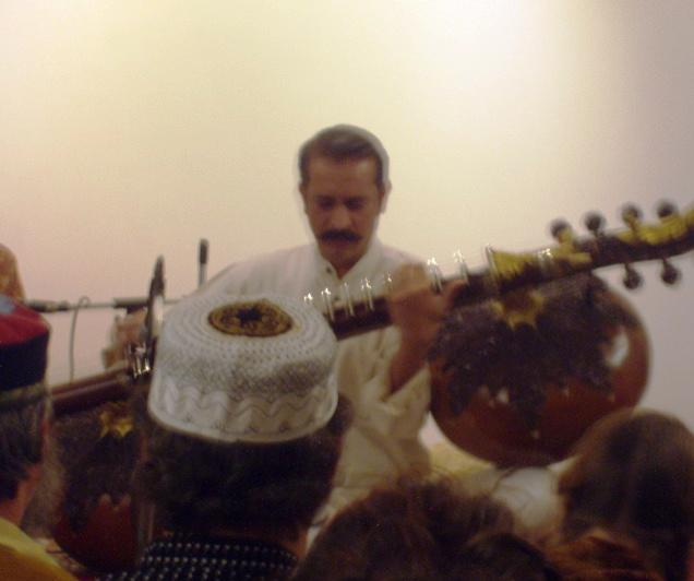 Bahauddin Dagar playing the rudra veena